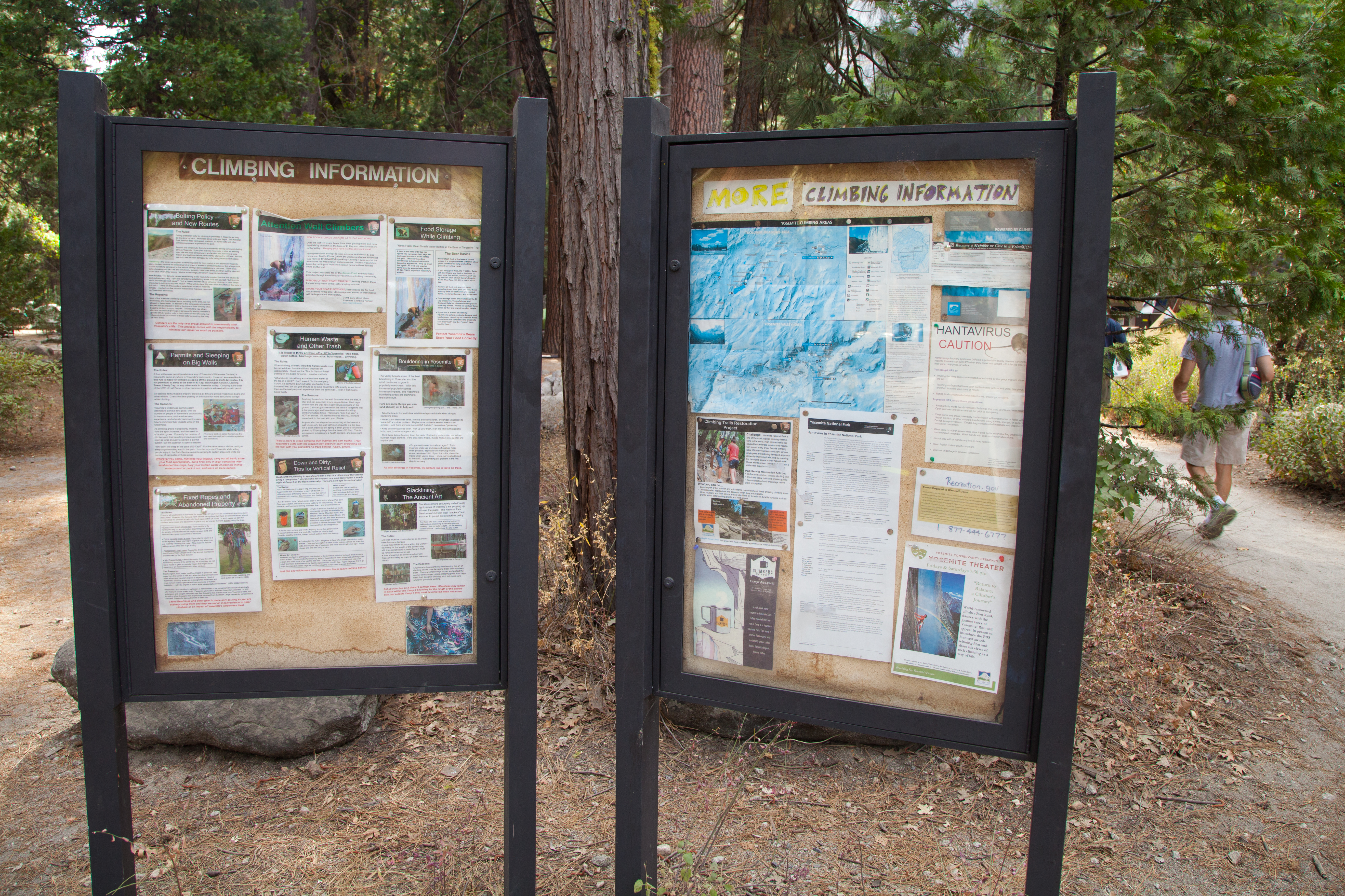 Ranger station's rock climbing signboards in Camp 4 — a campground favored by rock climbers near Yosemite Falls in Yosemite Valley, California.